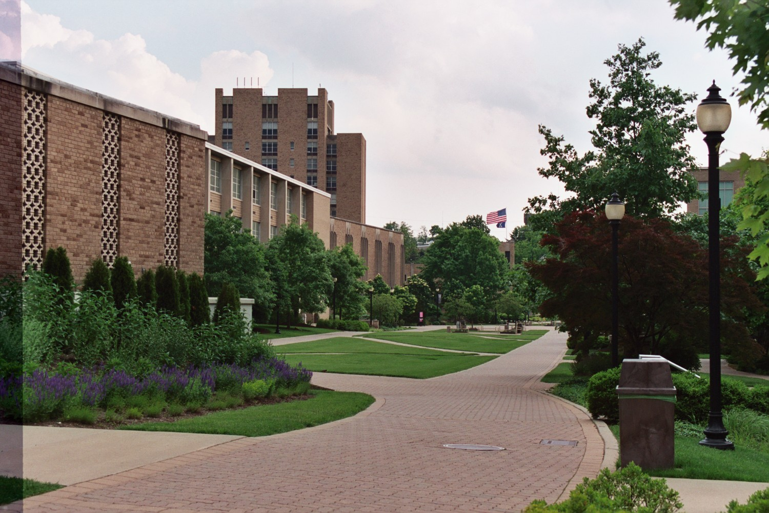 Xavier University's campus. Image is released solely under CC-BY-SA 1.0 by its creator Andrew Haggard.